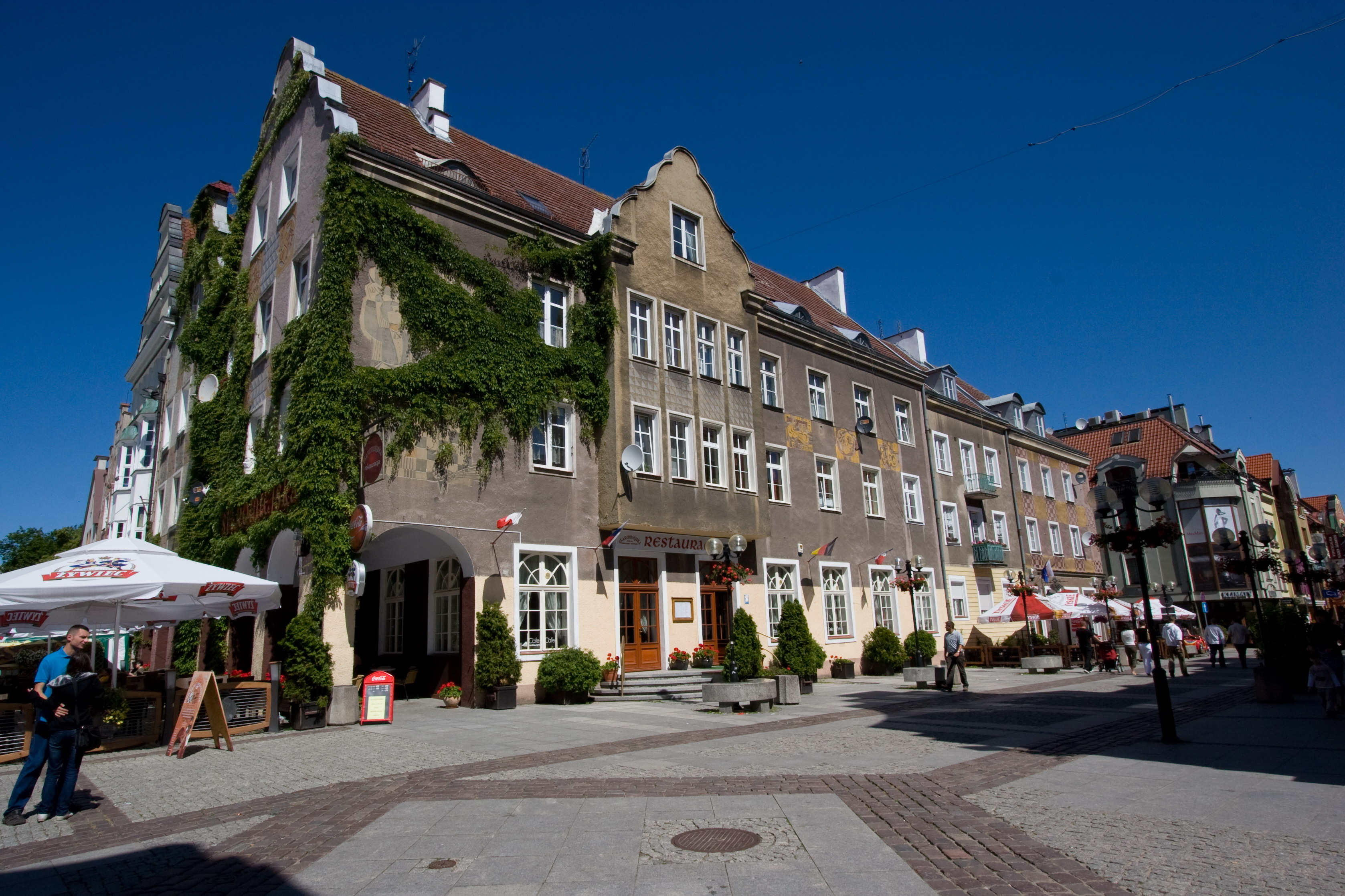 The Old Town in Olsztyn